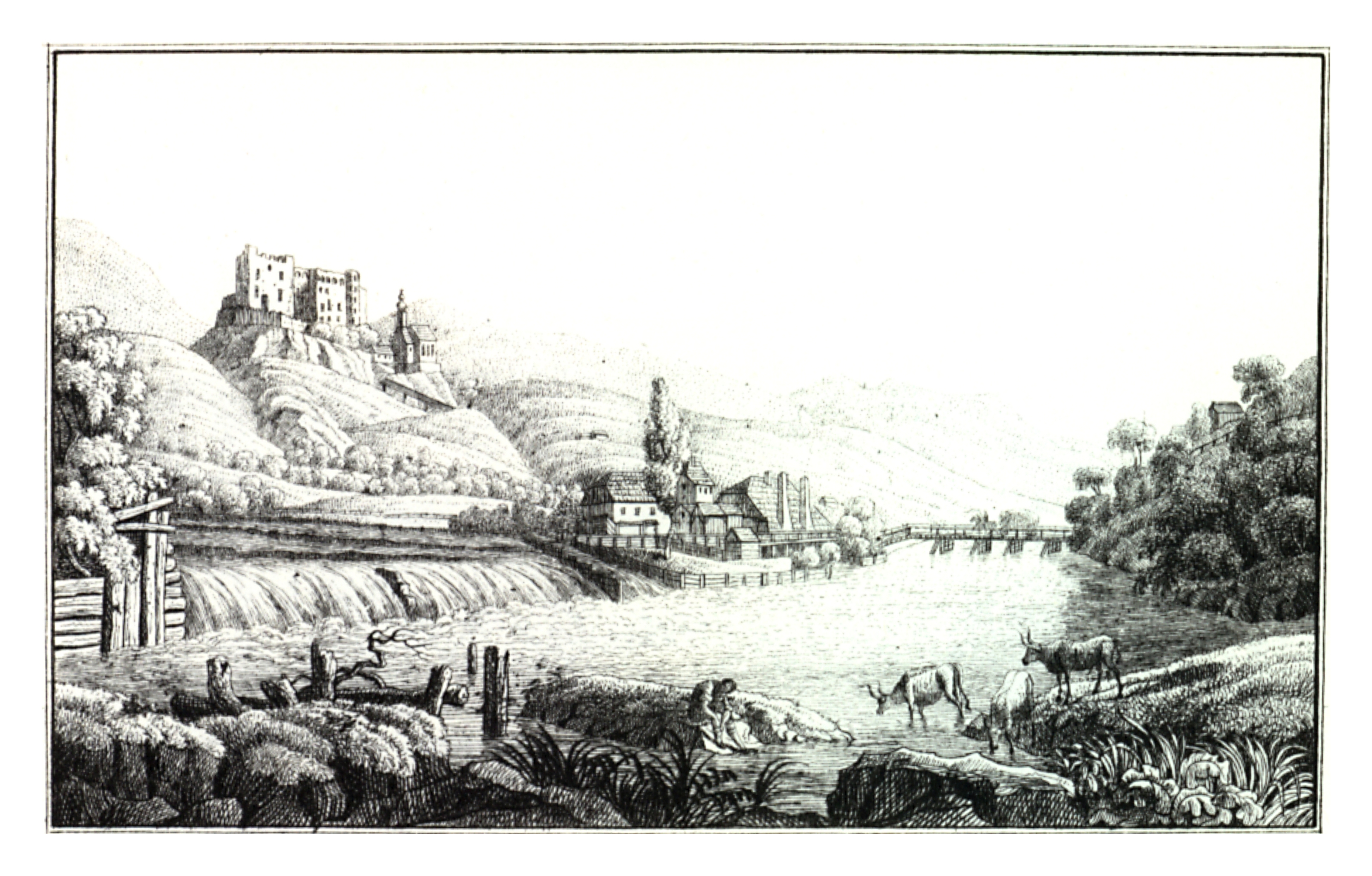 J. F. Kaiser - lithographirte Ansichten der Steyermärkischen Städte, Märkte und Schlösser Graz, 1825 Scanprojekt Community Projektbudget 2012 This scan or this PDF-file was created within the GLAM-project Bookscanning, supported by Wikimedia Germany and Wikimedia Austria as a part of the community-project to capture books, documents and pictures which are not eligible to copyright or for which the copyright has expired. This document describes or depicts an object which is located in Austria today. Send requests for uncompressed scans to Hubertl. This work is in the public domain in its country of origin and other countries and areas where the copyright term is the author's life plus 100 years or less. You must also include a United States public domain tag to indicate why this work is in the public domain in the United States. This file has been identified as being free of known restrictions under copyright law, including all related and neighboring rights.